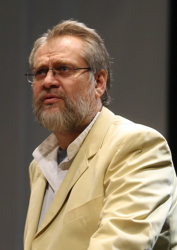 Nader Talebzadeh, Iranian filmmaker and film critic.